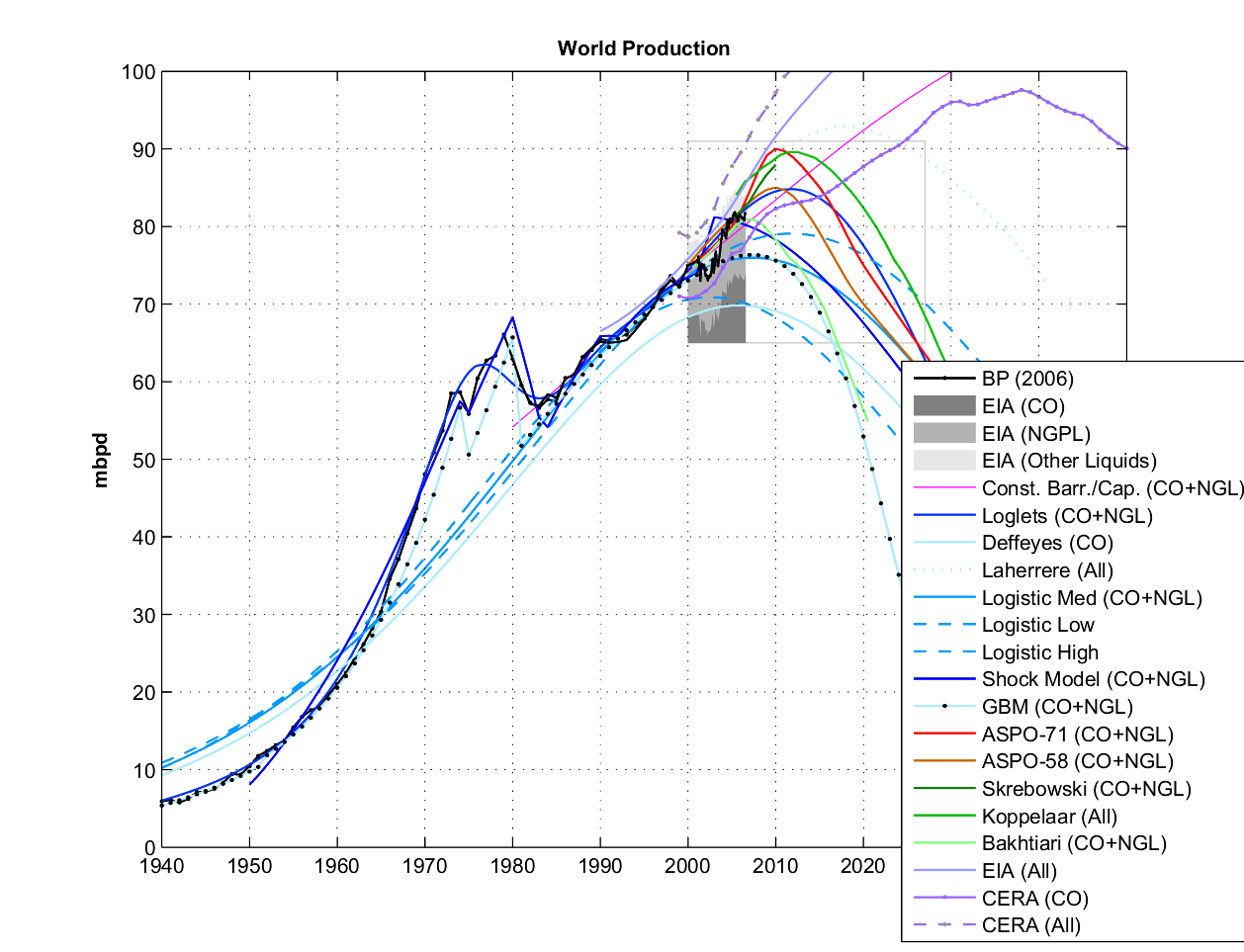 World production forecast Made by Khebab of The Oil Drum According to right hand column of the cited page.Kgrr 08:24, 12 July 2007 (UTC)